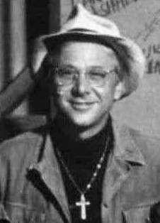 Cast photo from M*A*S*H for 1977. William Christopher as Father Mulcahy.